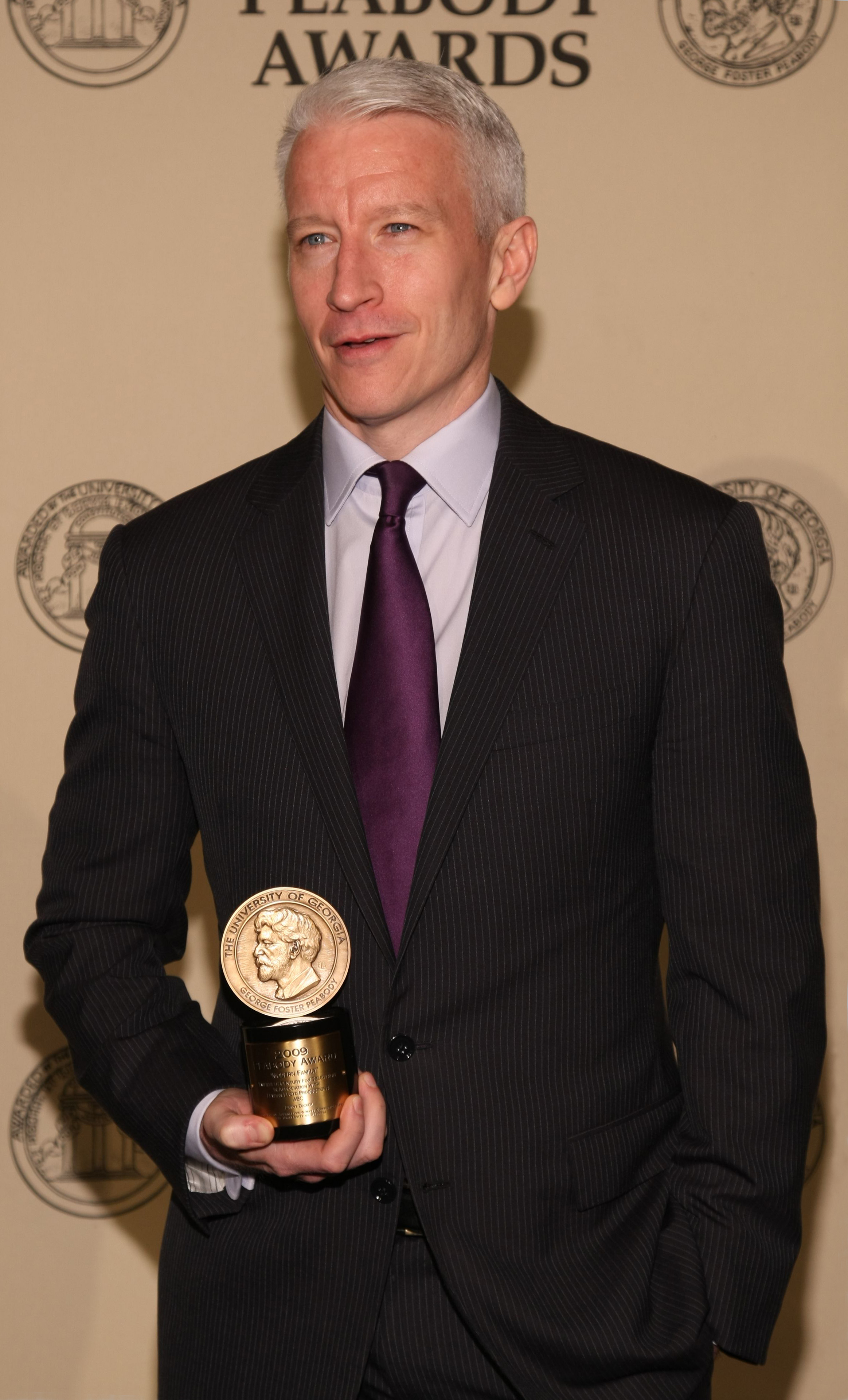 PHOTO CREDIT: ANDERS KRUSBERG / PEABODY AWARDS 71st Annual Peabody Awards Luncheon Waldorf=Astoria Hotel May 21, 2012